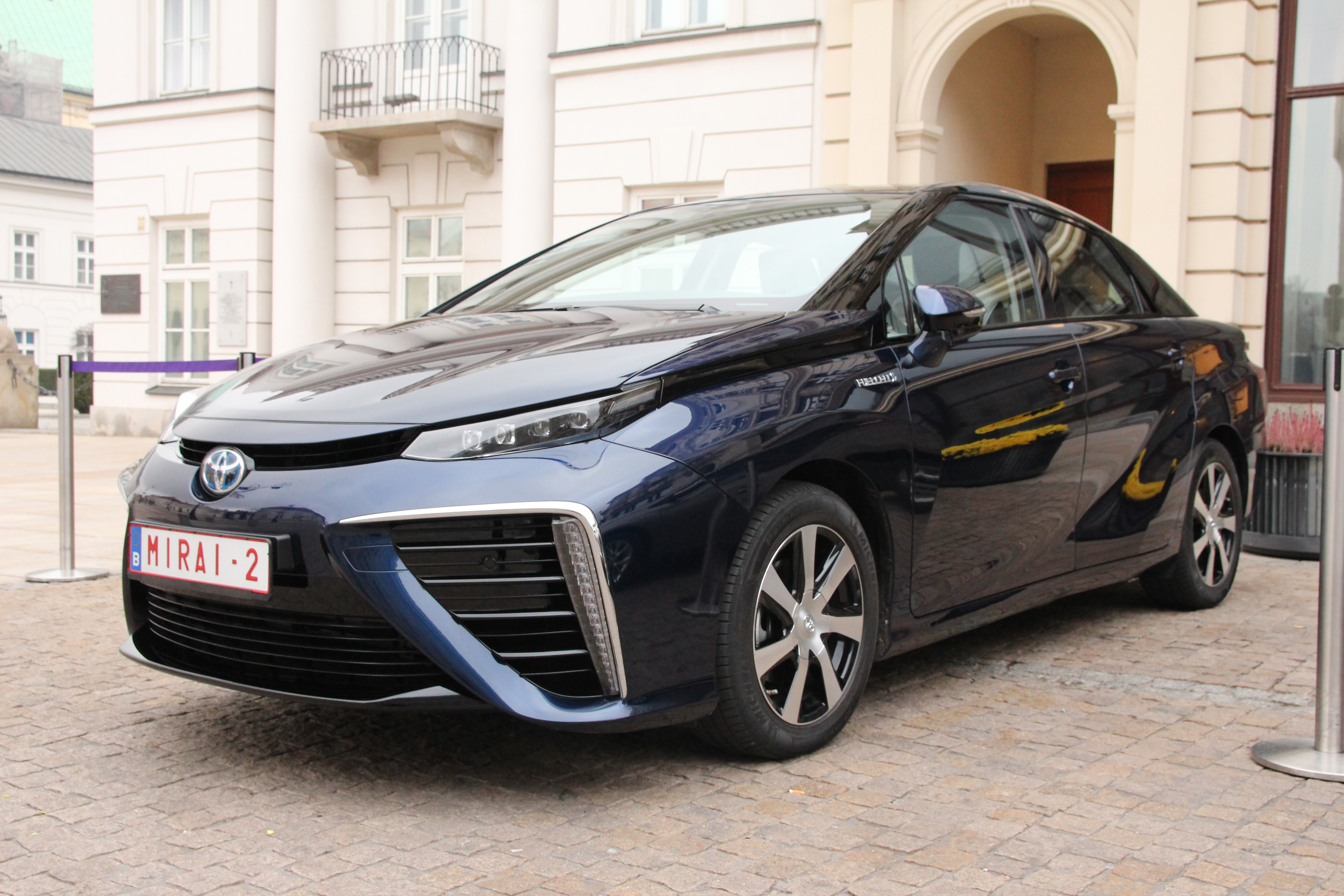 Toyota Mirai during demonstration in Warsaw, Poland, Nov 22 2015